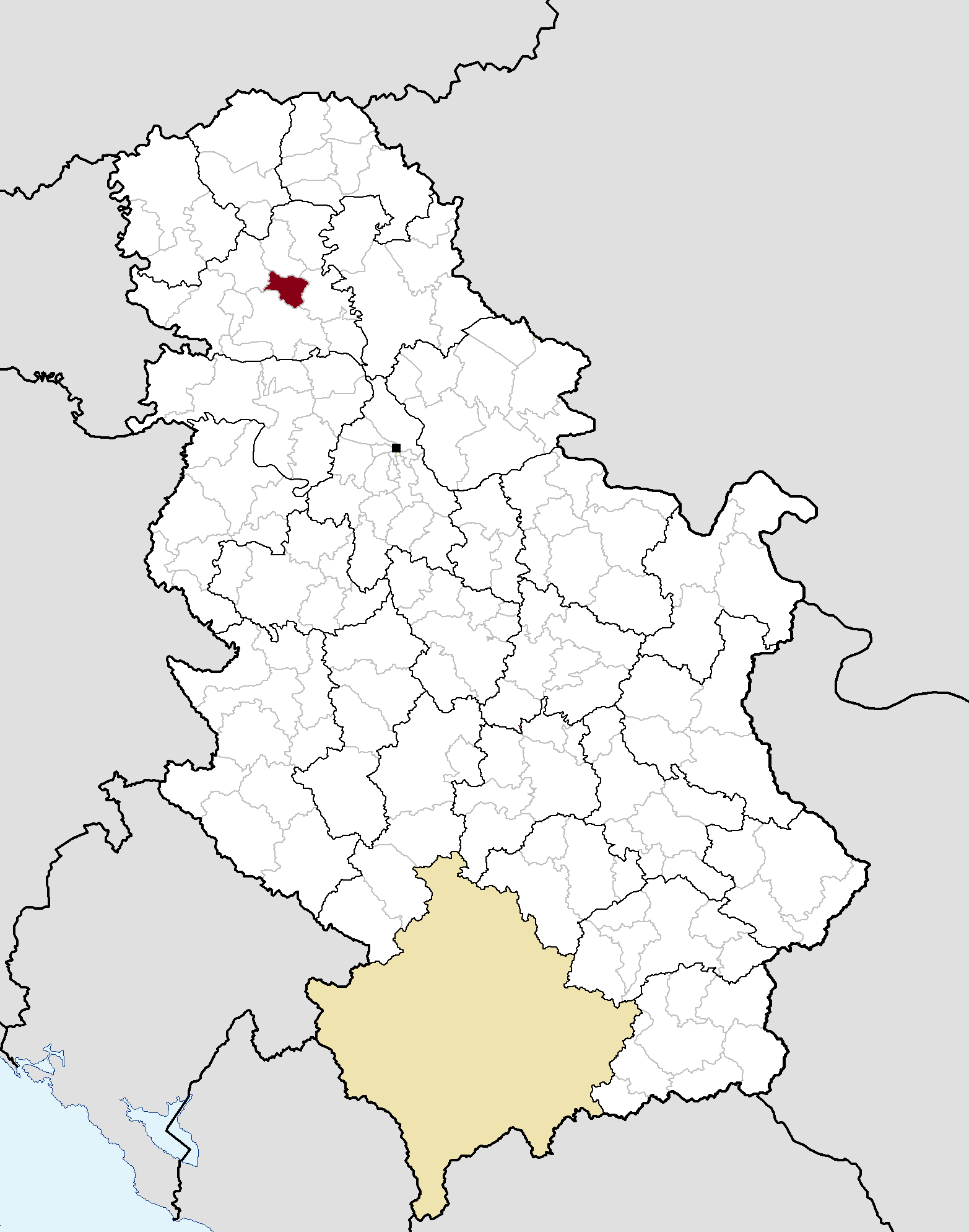 Municipal location in Serbia